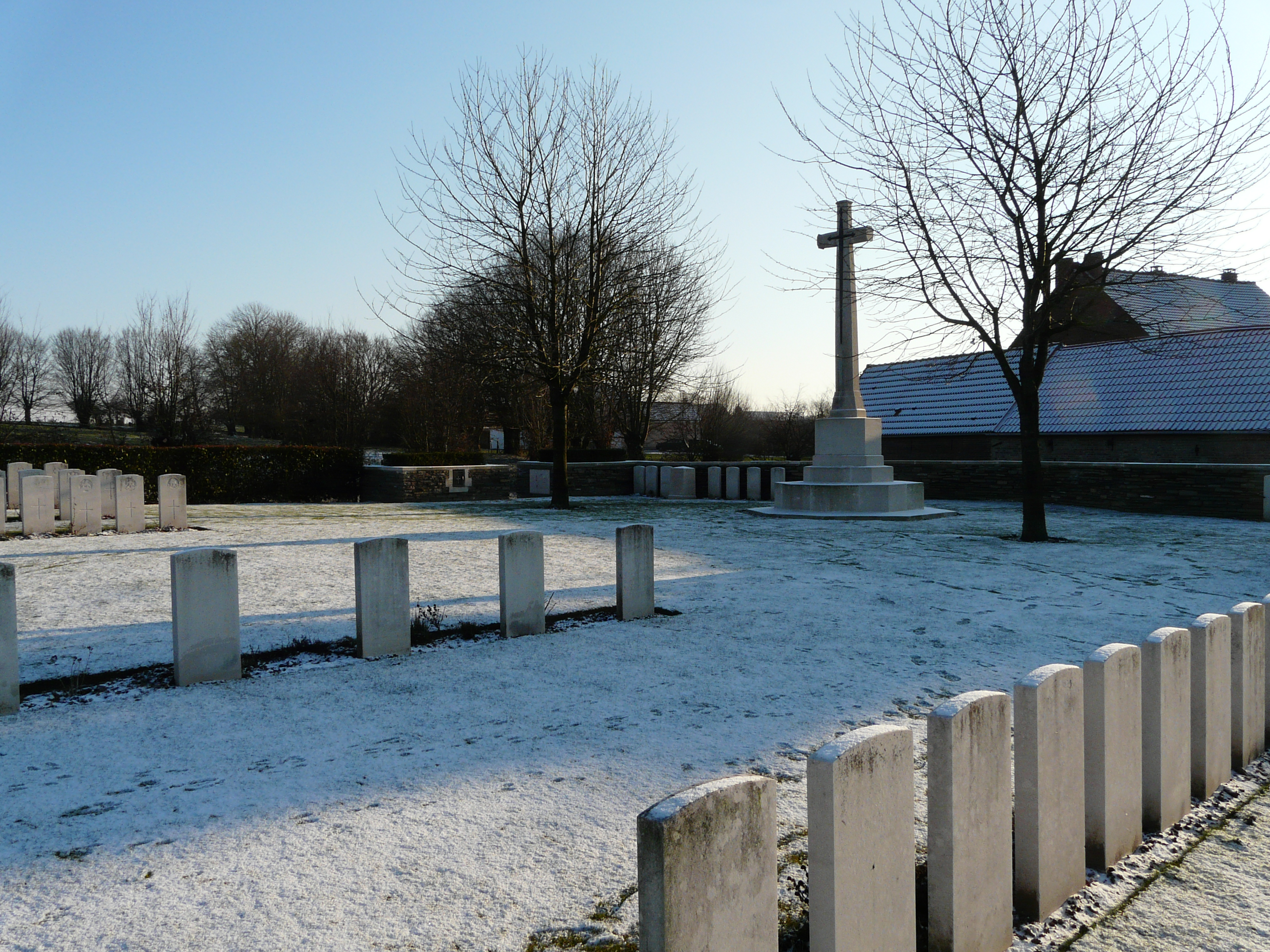 Honnechy British Cemetery, CWGC, Honnechy (Nord, France) - February 2012